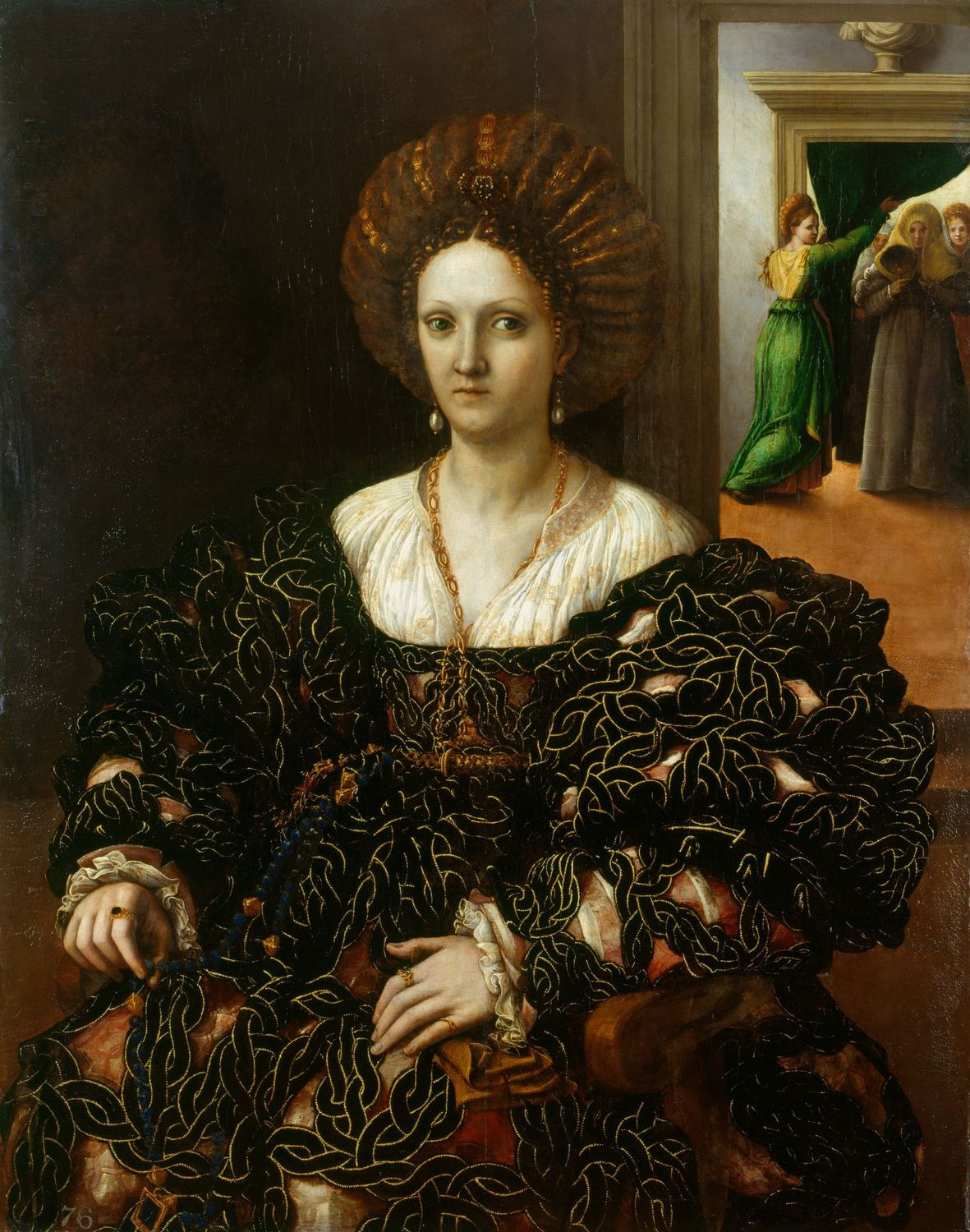 Portrait believed to depict Margherita Paleologo